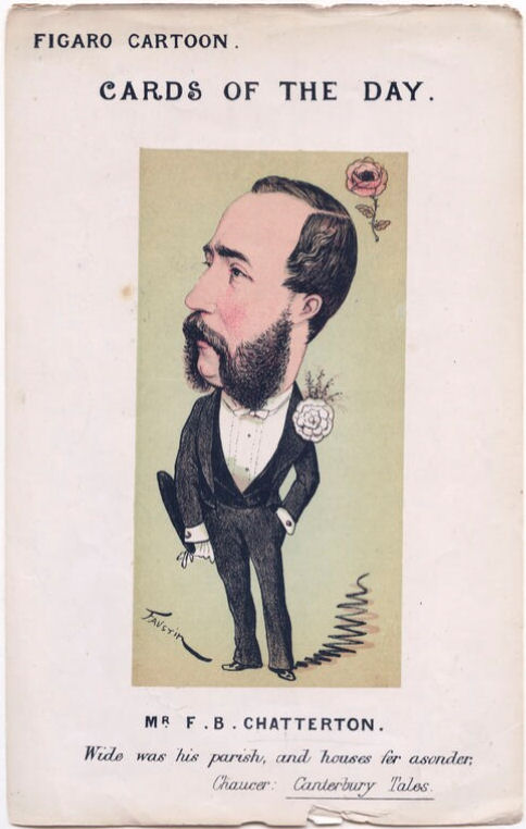 Frederick Balsir Chatterton (1834-1886) as depicted in 'London Figaro' (c1870)